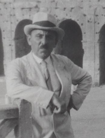 Bulgarian sculptor Ivan Lazarov in Italy, 1932